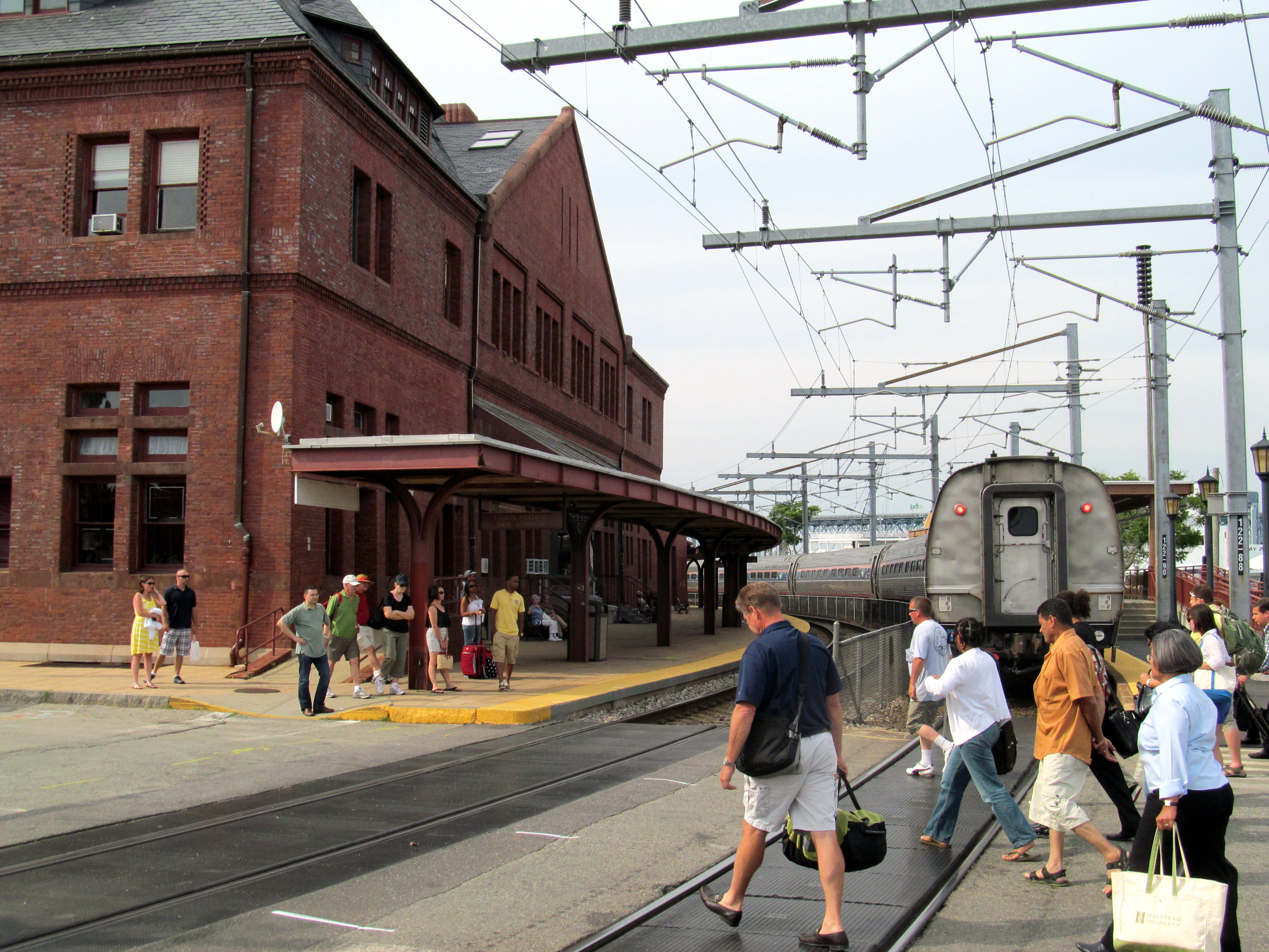 Passengers cross the tracks at New London via the State Street grade crossing after a northbound Northeast Regional rolls through. There is no overhead pedestrian crossing to access the northbound platform - passengers must cross the tracks using State Street.